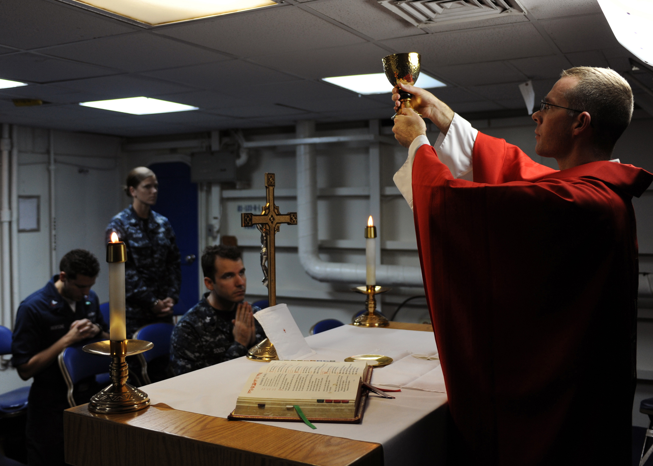 PACIFIC OCEAN (Sept. 14, 2010) Lt. Benton Garrett, from Ingleside, Texas, a chaplain aboard the aircraft carrier USS Abraham Lincoln (CVN 72), raises the mass grail inside the chapel while Sailors pray during Catholic Mass. Lincoln is deployed as part of the Abraham Lincoln Carrier Strike Group, focusing on maritime security operations and theater security cooperation efforts. (U.S. Navy photo by Mass Communication Specialist 2nd Class Brian Morales/Released)